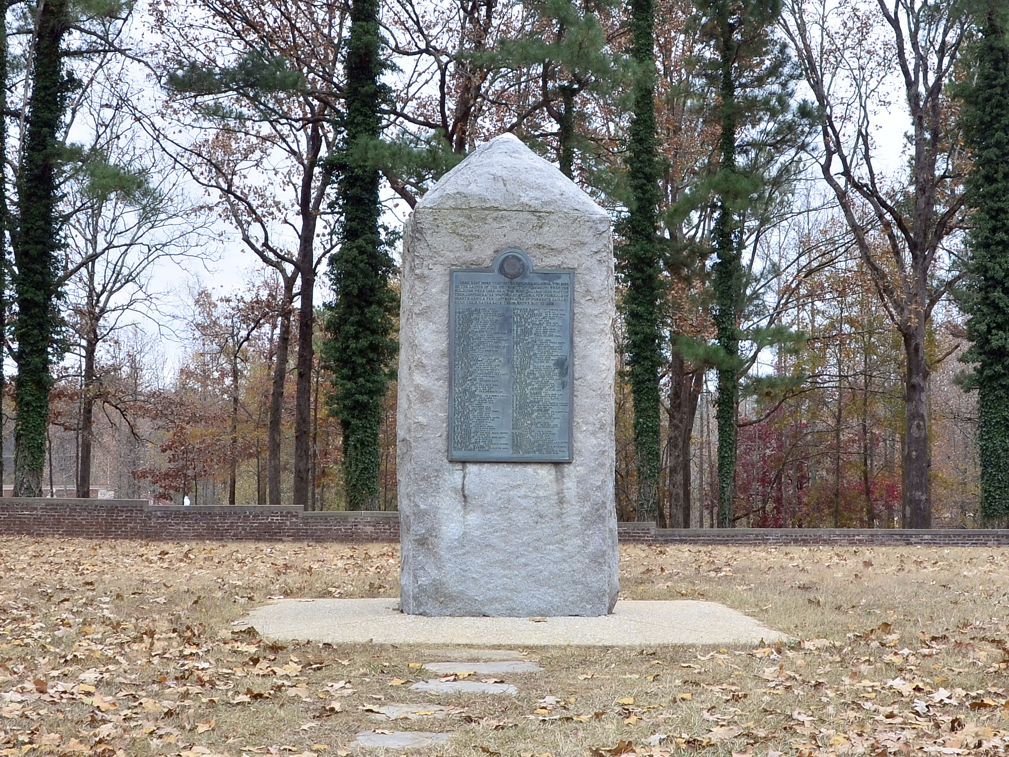 Confederate Cemetery Memorial, University of Mississippi.